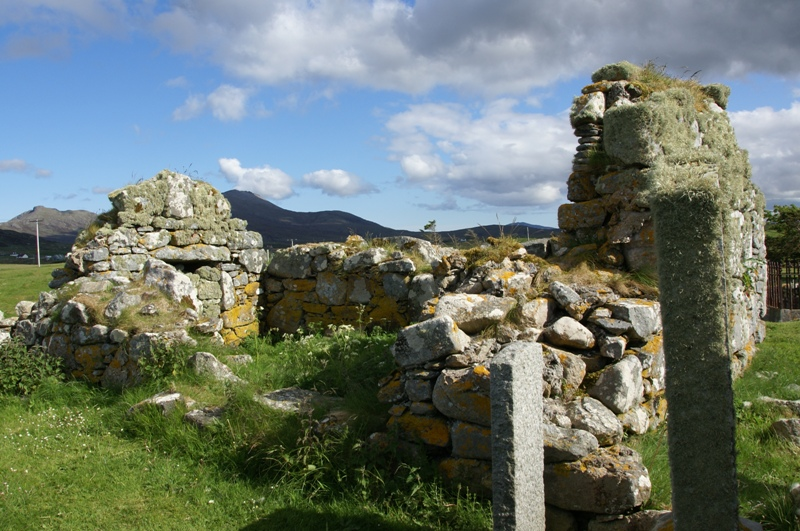 Howmore churches and chapels, Howmore (Tobha Mòr), South Uist, Outer Hebrides, Scotland - Clan Ranald Chapel (Caibeal Chiann 'Ic Ailein)